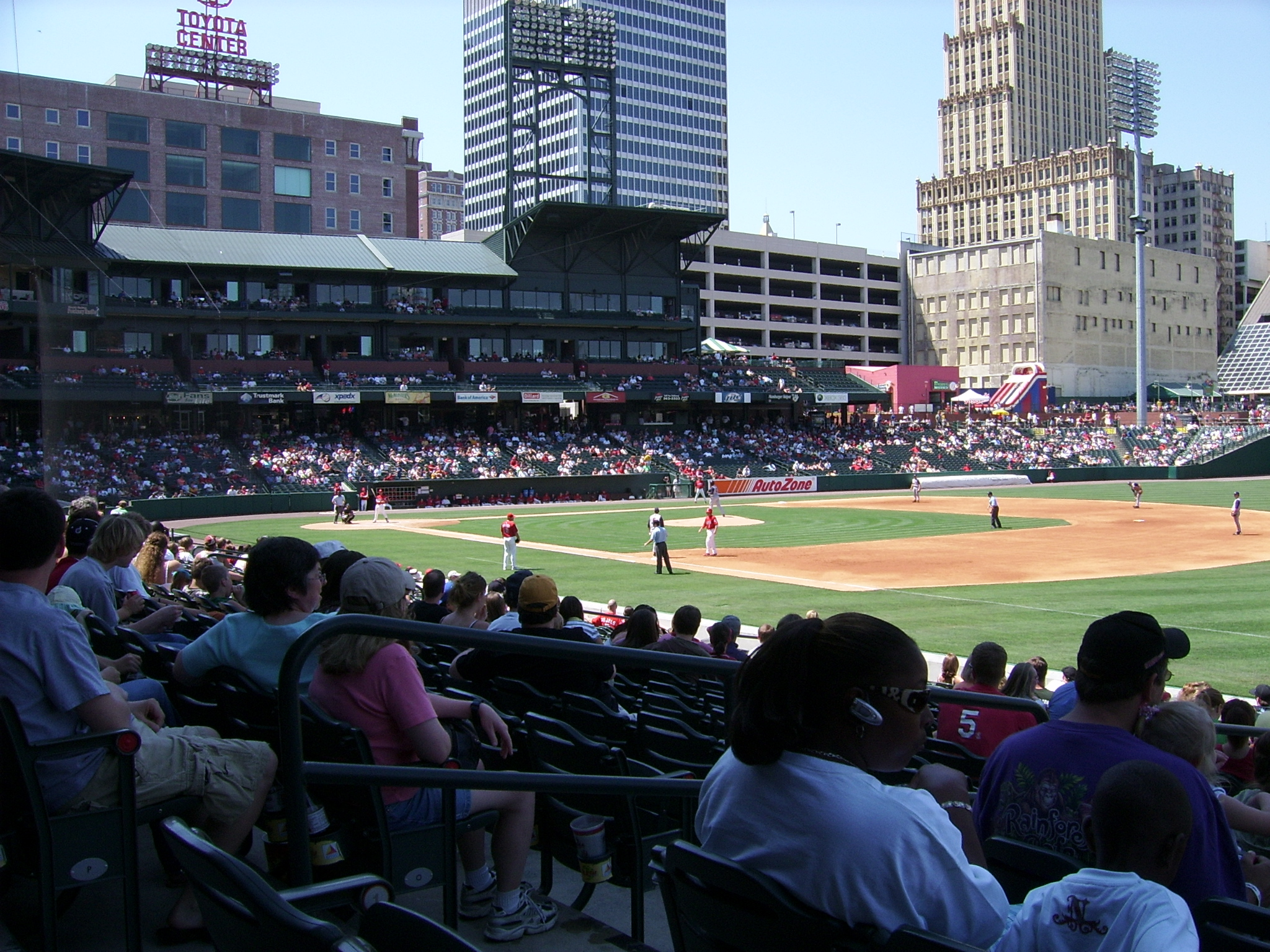 AutoZone Park, Memphis Redbirds, May 20, 2007